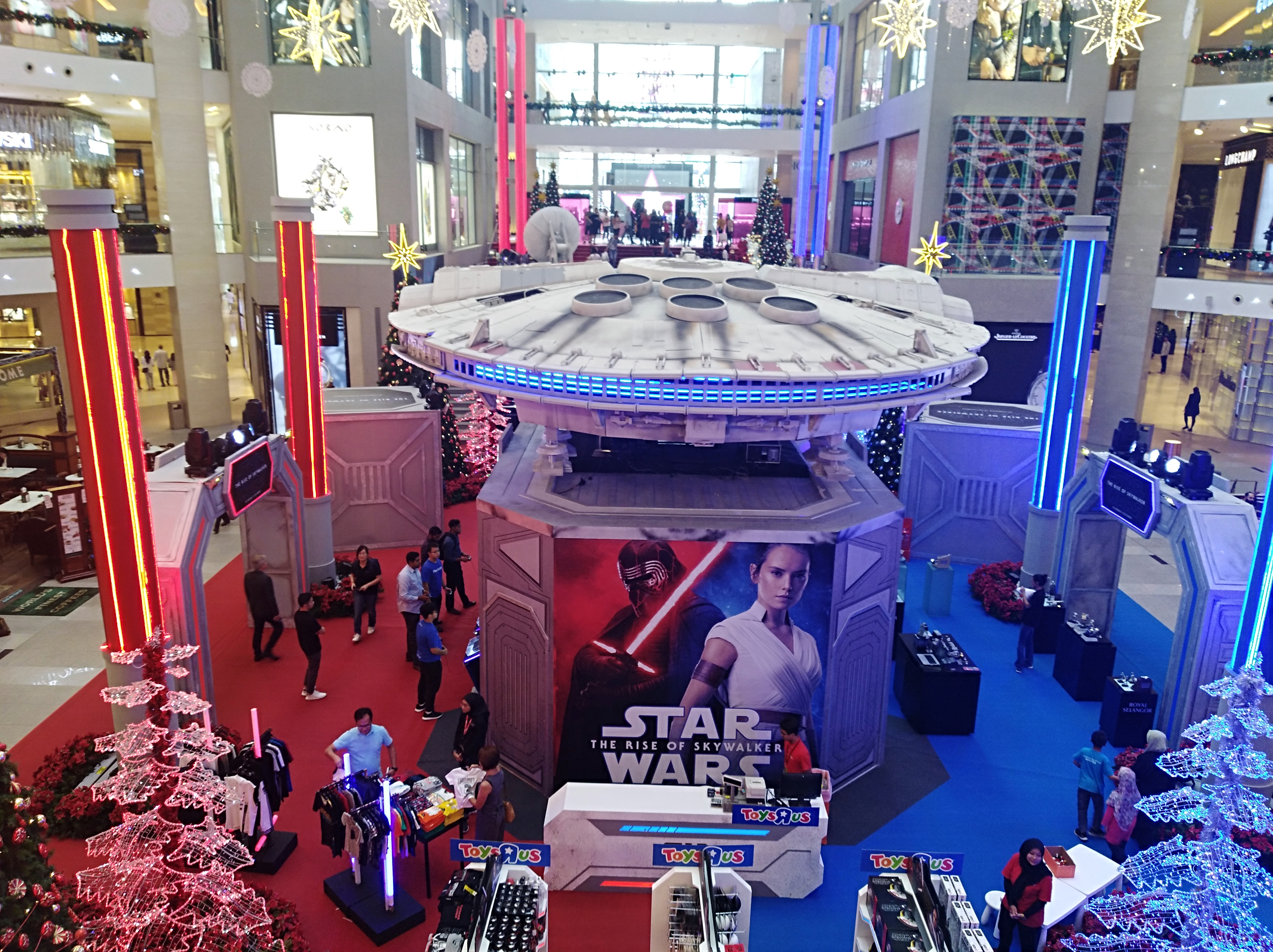 This year, it hosts a gallery about "The Rise of Skywalker".